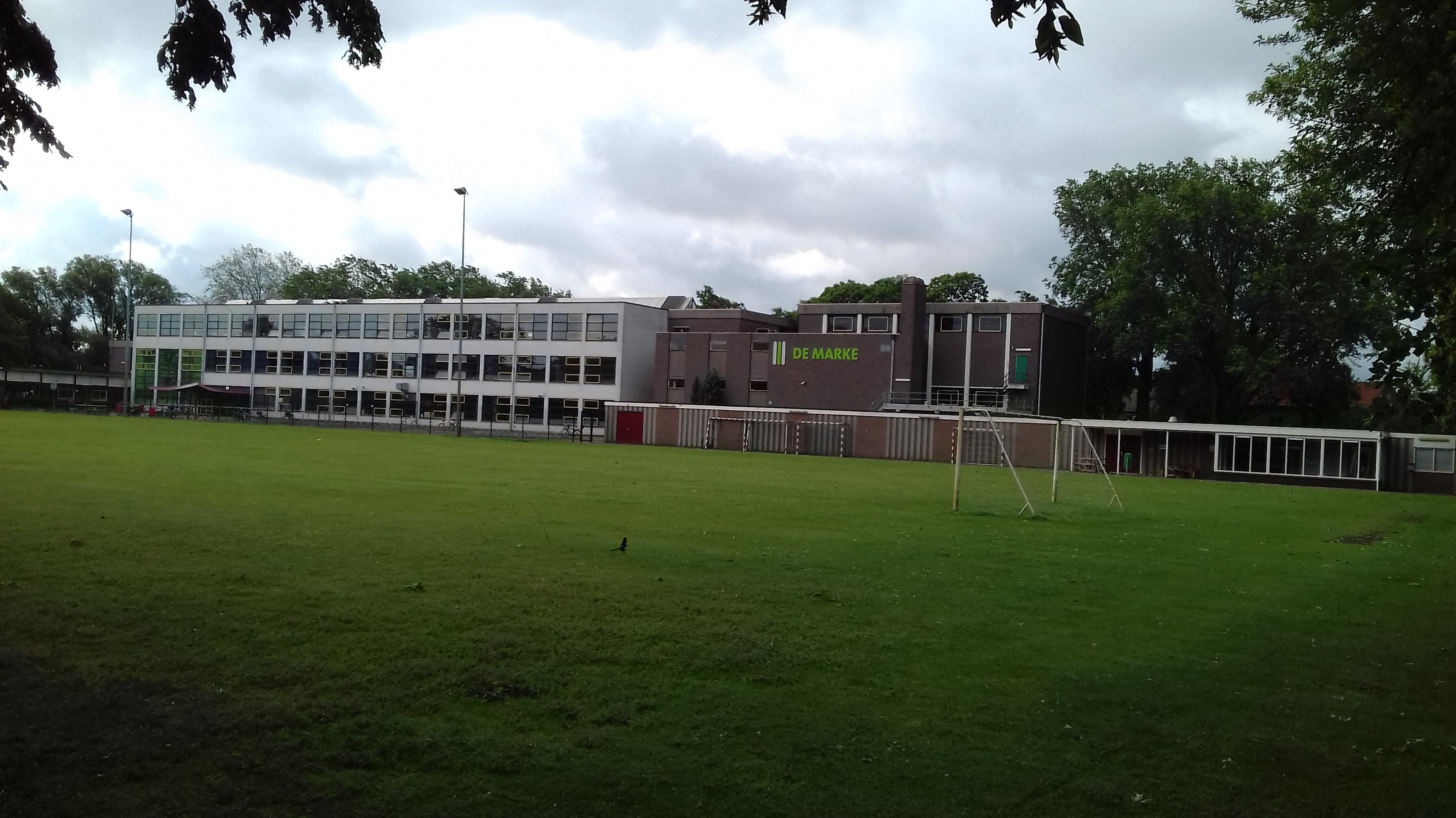 School building of the Etty Hillesum Lyceum location De Marke South (main entrance) in Deventer, The Netherlands